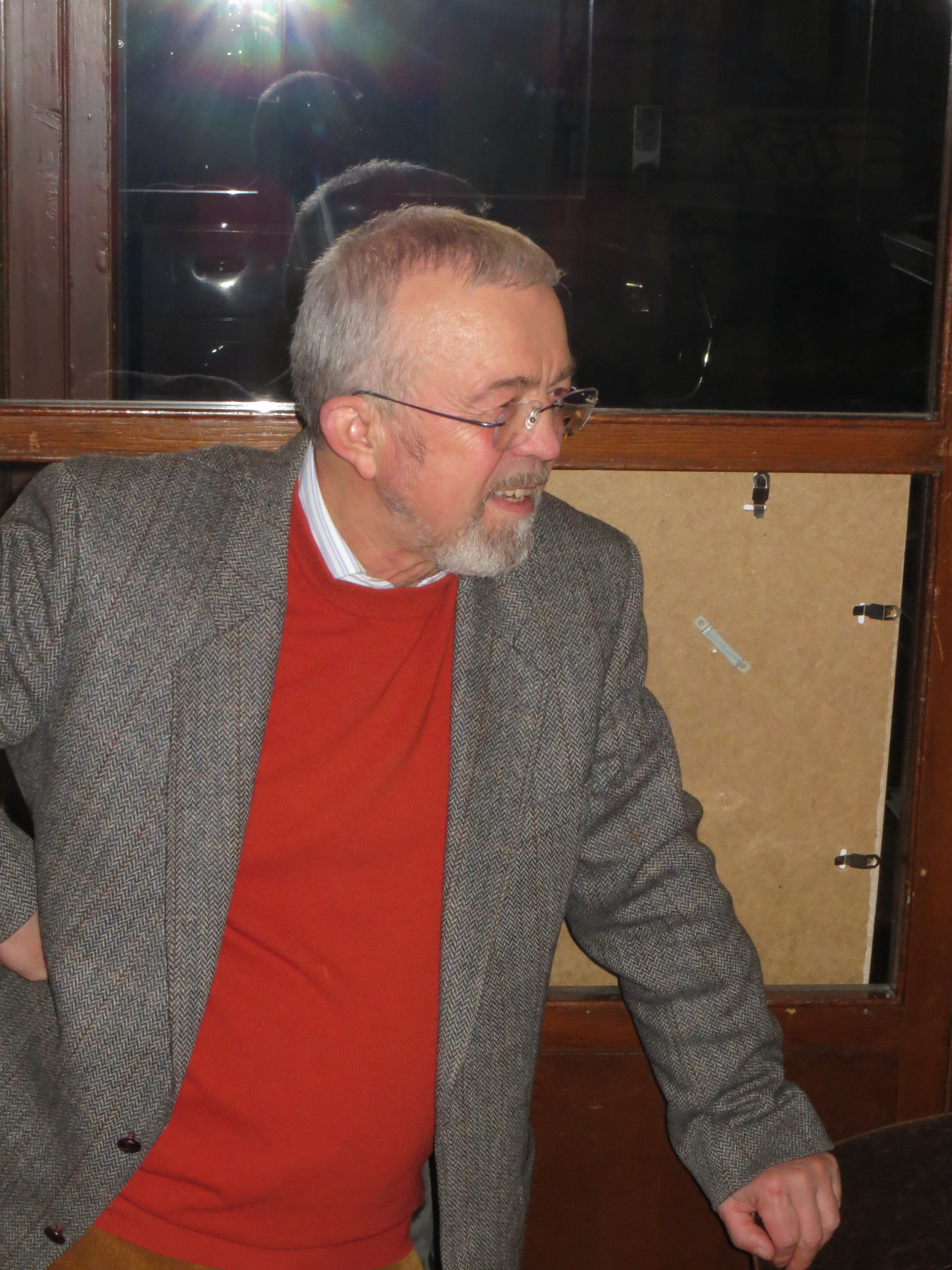 Czech priest Václav Vacek has a lecture at the club Samaria in Prague on 24 February 2016.